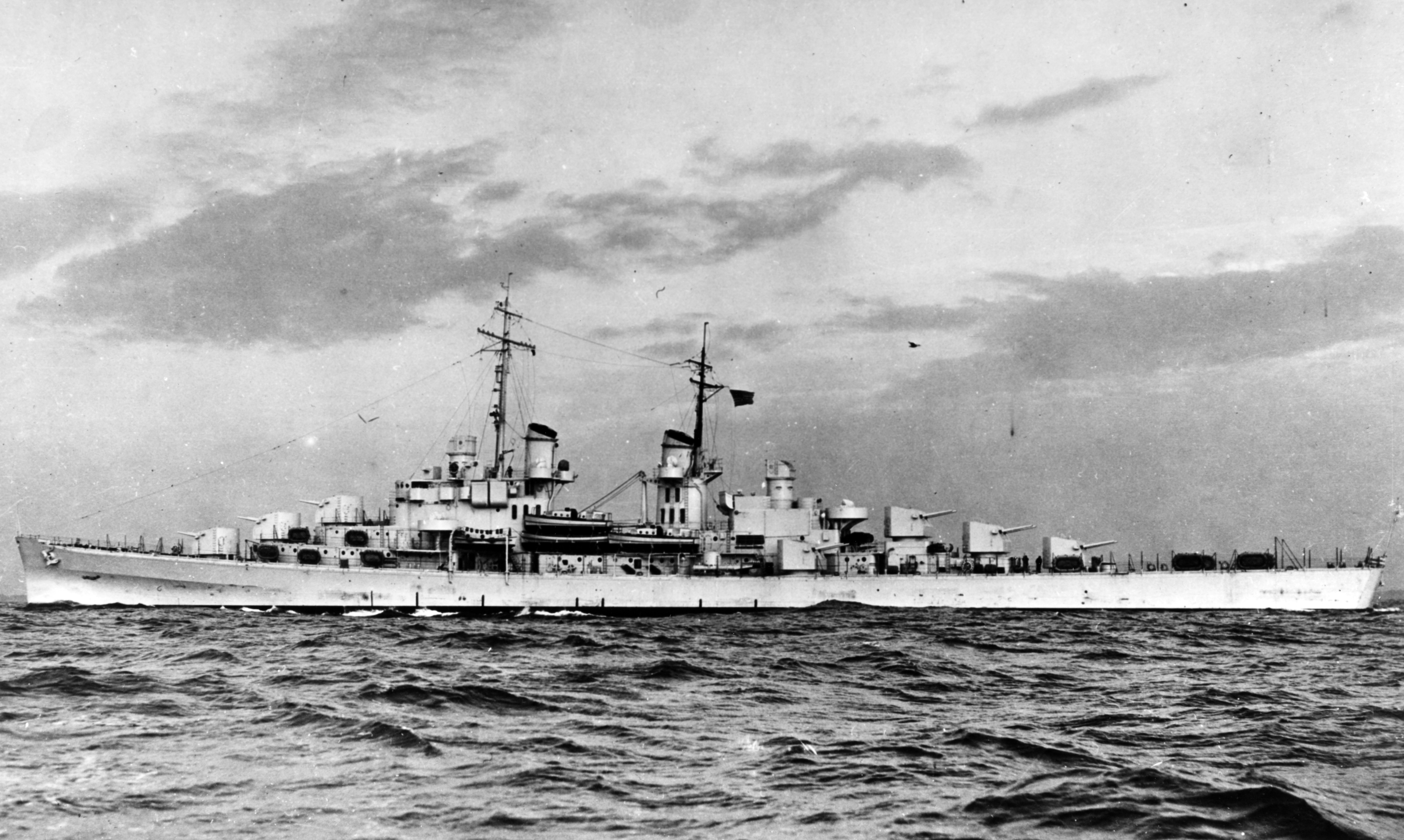 The U.S. Navy light cruiser USS Atlanta (CL-51) running trials off Rockland, Maine (USA), on 26 November 1941.